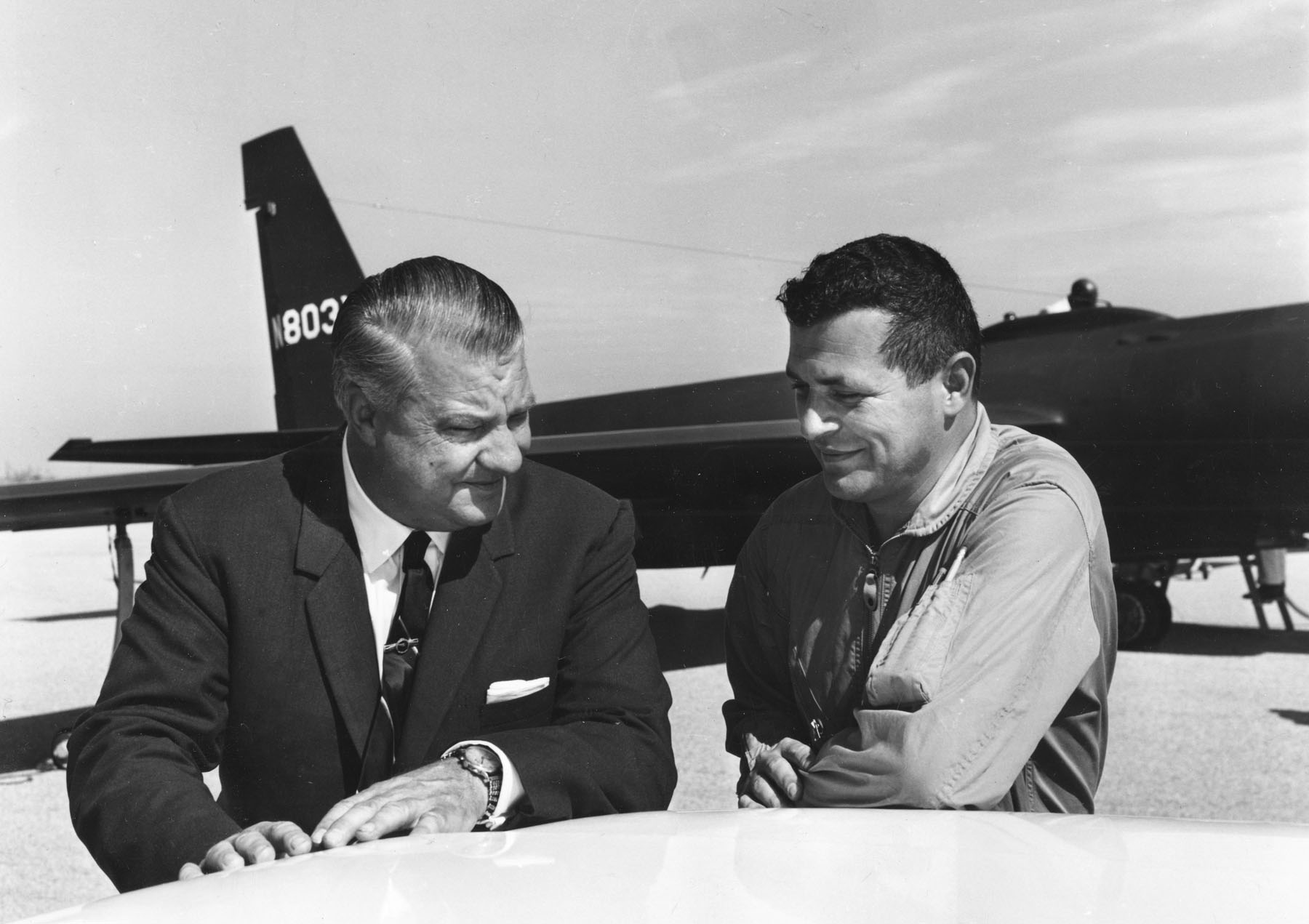 Francis Gary Powers (right) with U-2 designer Kelly Johnson in 1966. Powers was a USAF fighter pilot recruited by the CIA in 1956 to fly civilian U-2 missions deep into Russia. Powers and other USAF Reserve pilots resigned their commissions to become civilians. (U.S. Air Force photo)